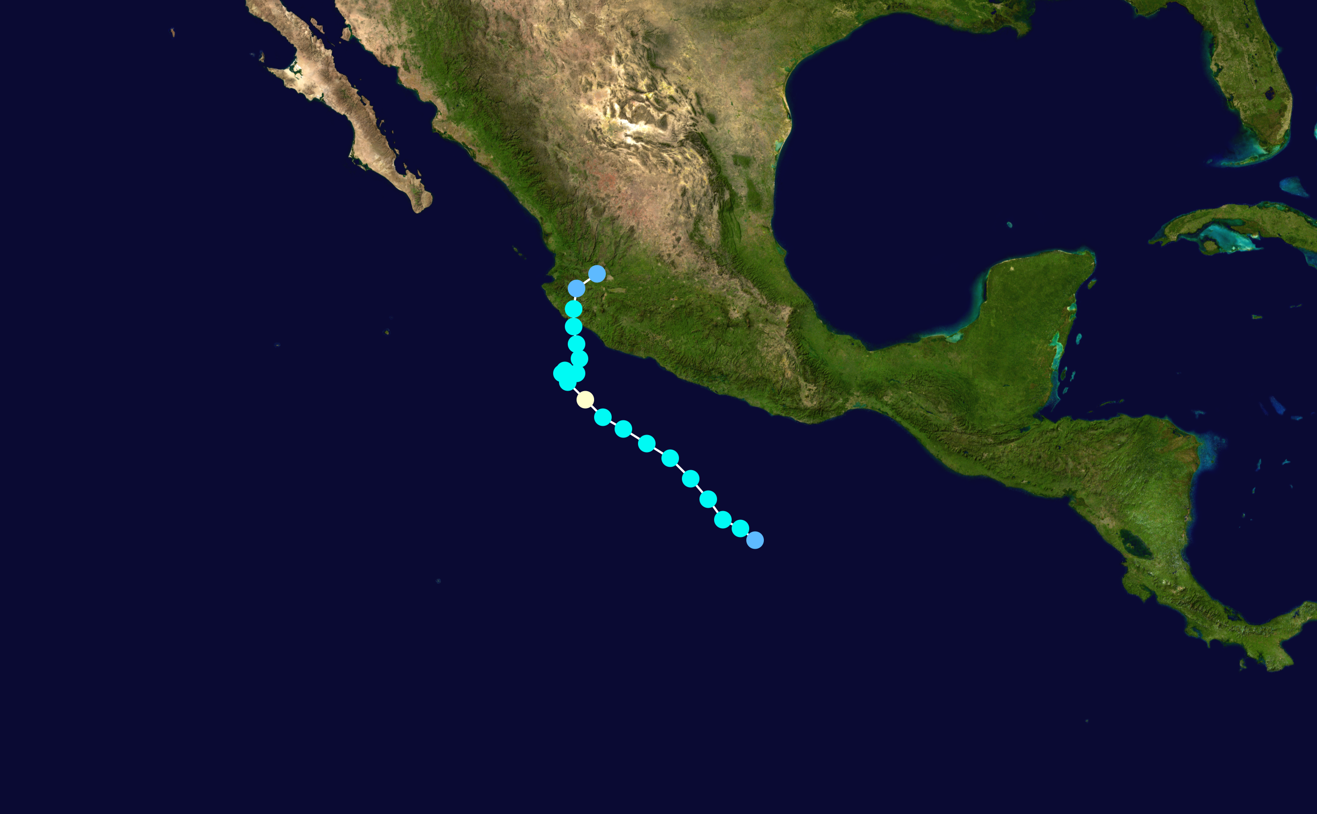 Hurricane Olaf (2003) track. Uses the color scheme from the Saffir-Simpson Hurricane Scale.